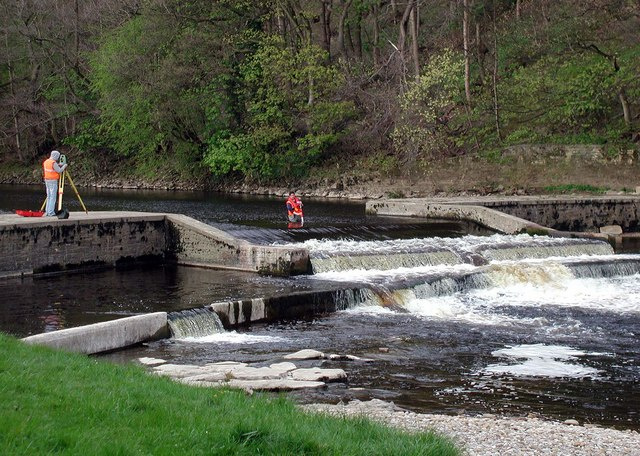 Low Mill, Addingham Surveying the weir at Low Mill on the River Wharfe below Castleberg Fort.